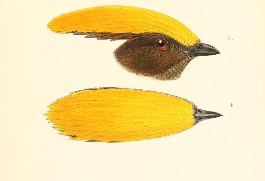 « Amblyornis flavifrons » = Amblyornis flavifrons (Golden-fronted Bowerbird) - Head profile (Number 3) and Top of Head (Number 4)